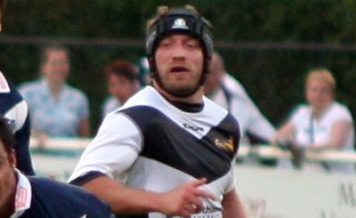 Andrew Henderson